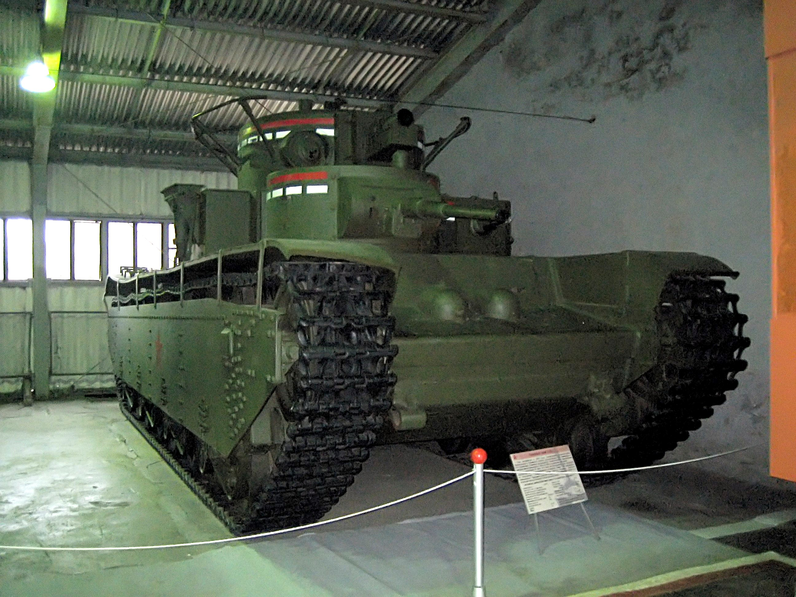 Soviet heavy tank T-35, displayed in Kubinka Tank Museum. Photo taken on December 6, 2006. Source: Photo by me, User:Saiga20K.